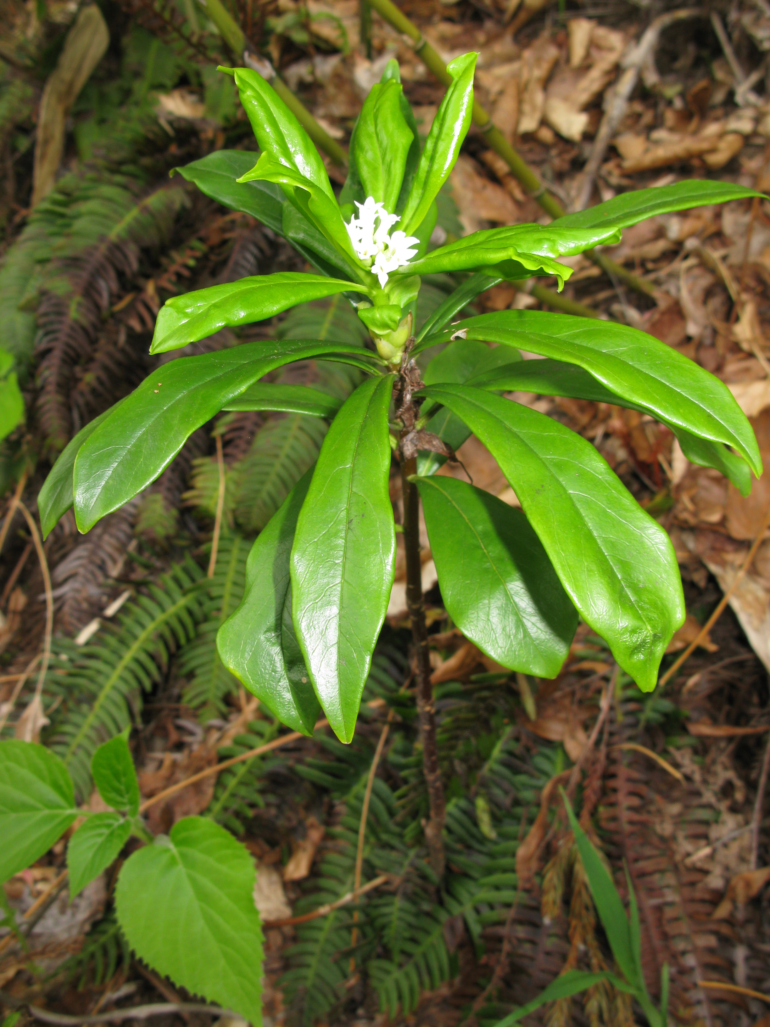 Daphne miyabeana, Aizu area, Fukushima pref., Japan